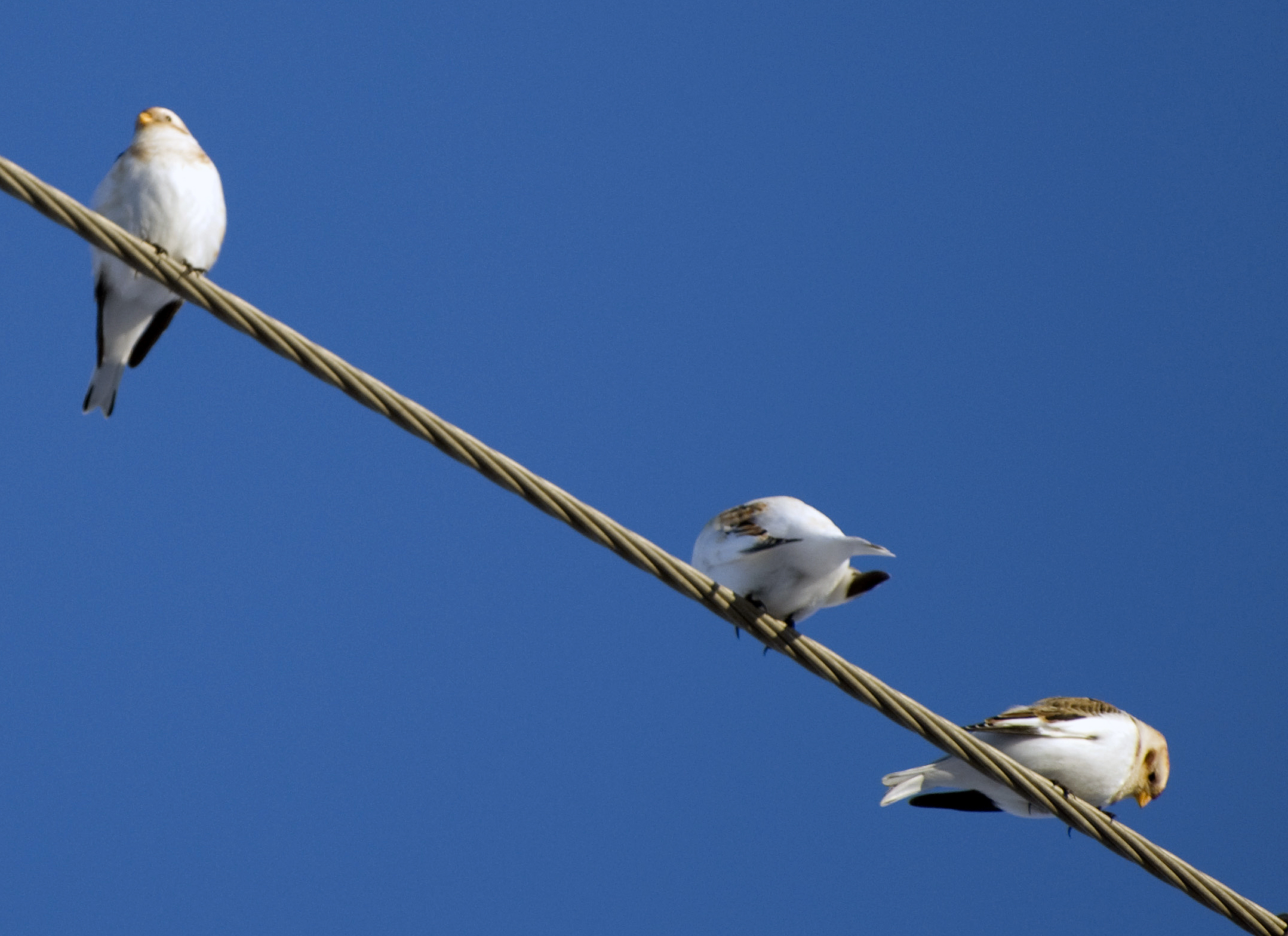 Snow Bunting Plectrophenax nivalis (left) and two McKay's Buntings Plectrophenax hyperboreus (right), on a wire behind the Bering Land Bridge National Preserve Visitor Center.